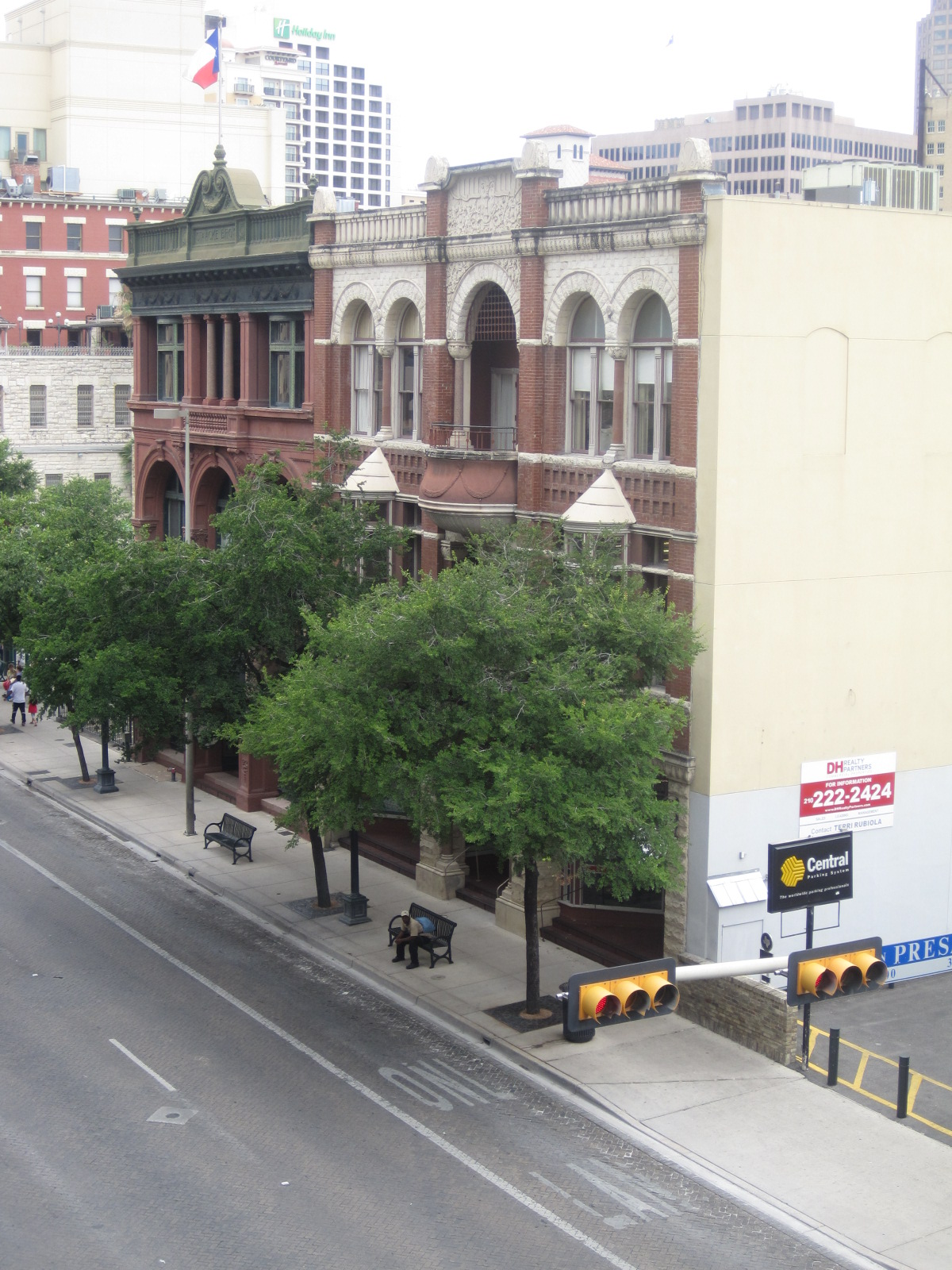 Staake Brothers and Stevens buildings on Commerce Ave., San Antonio